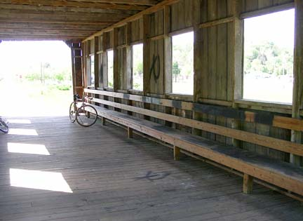 Richard Renner took this photo from inside the covered bridge for the Conotton Creek Trail in Scio, Ohio, on 2006-05-20. The B & F Dairy Bar is through the right-most window.